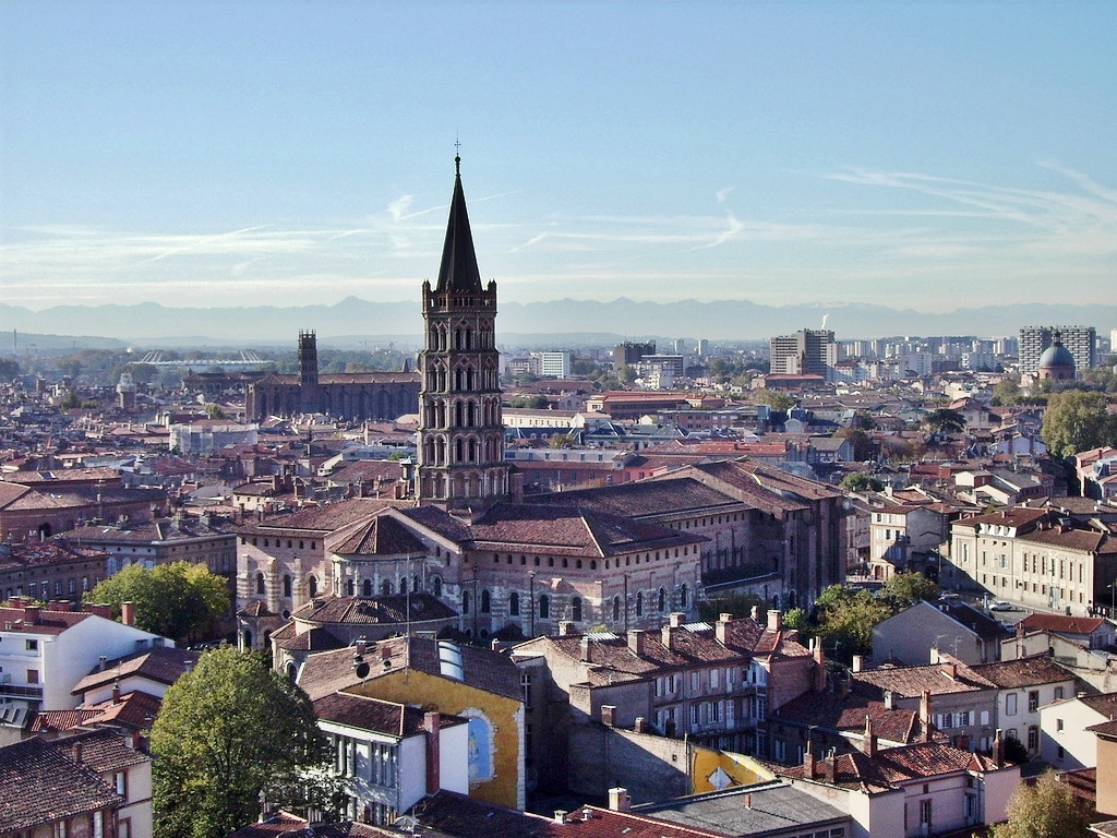 Toulouse (Haute-Garonne, France), view on Saint-Sernin basilica.